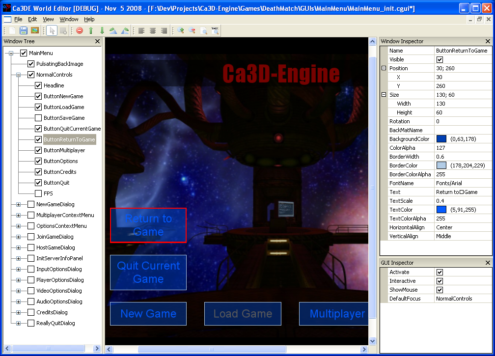 A screenshot of the GUI editor for the Cafu Engine. The GUI editor is a part of CaWE, the Cafu World Editor.